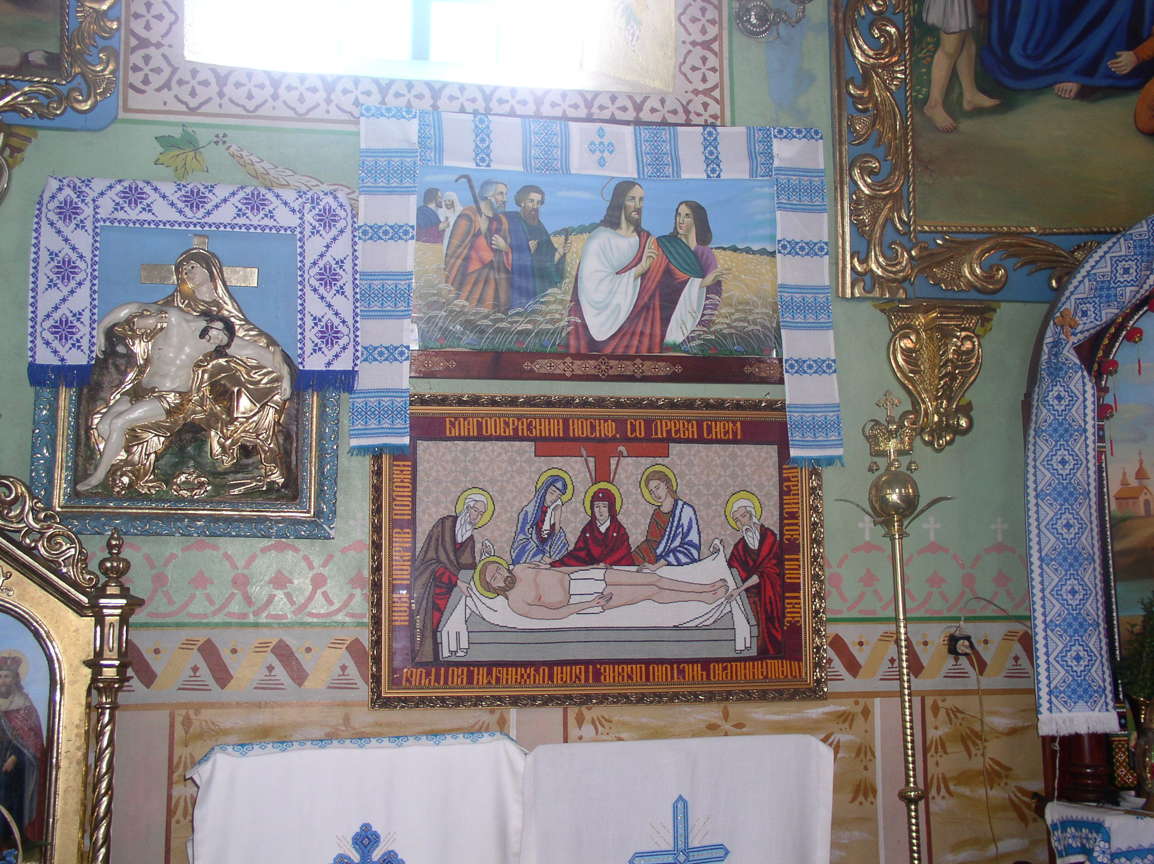 Руки людські з Божою ласкою дива роблять!